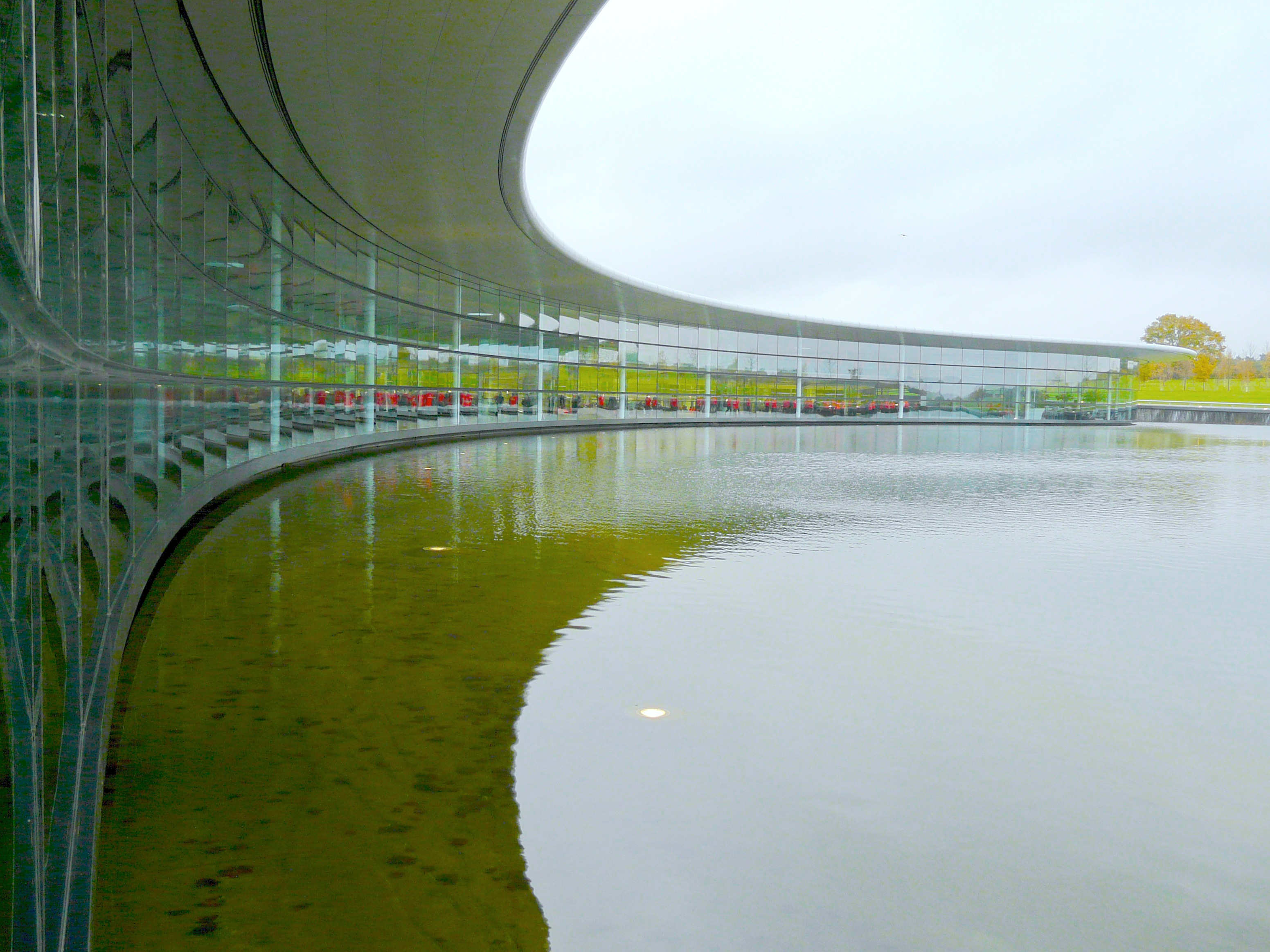 McLaren Technology Centre, exterior view. (Woking, Surrey, UK.)